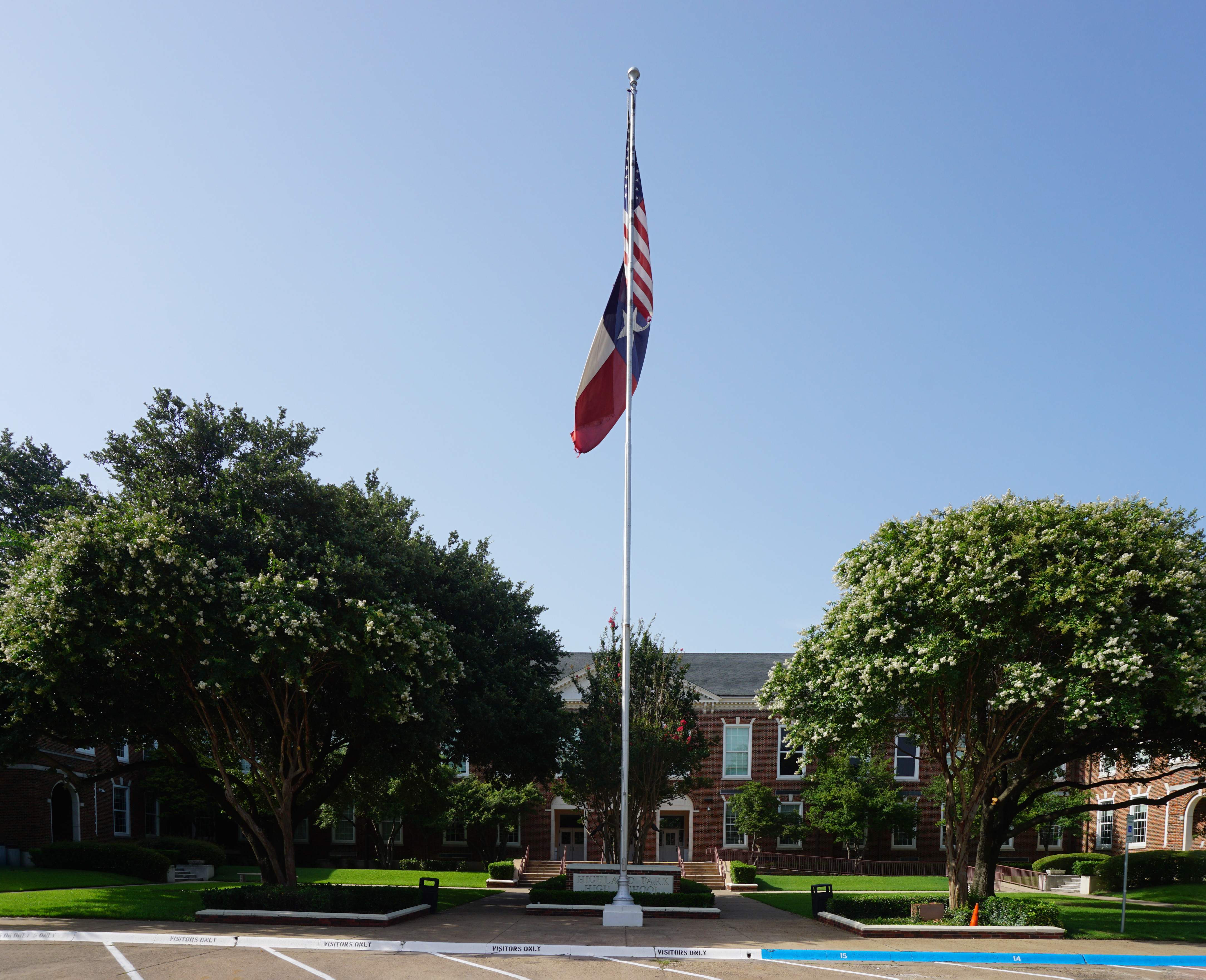 Highland Park High School in University Park, Texas (United States).